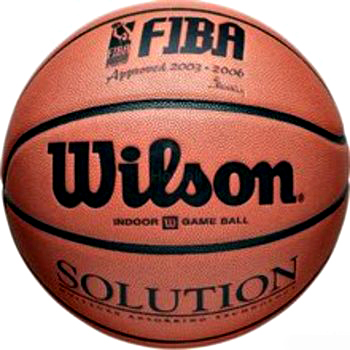 Basketball Wilson Solution